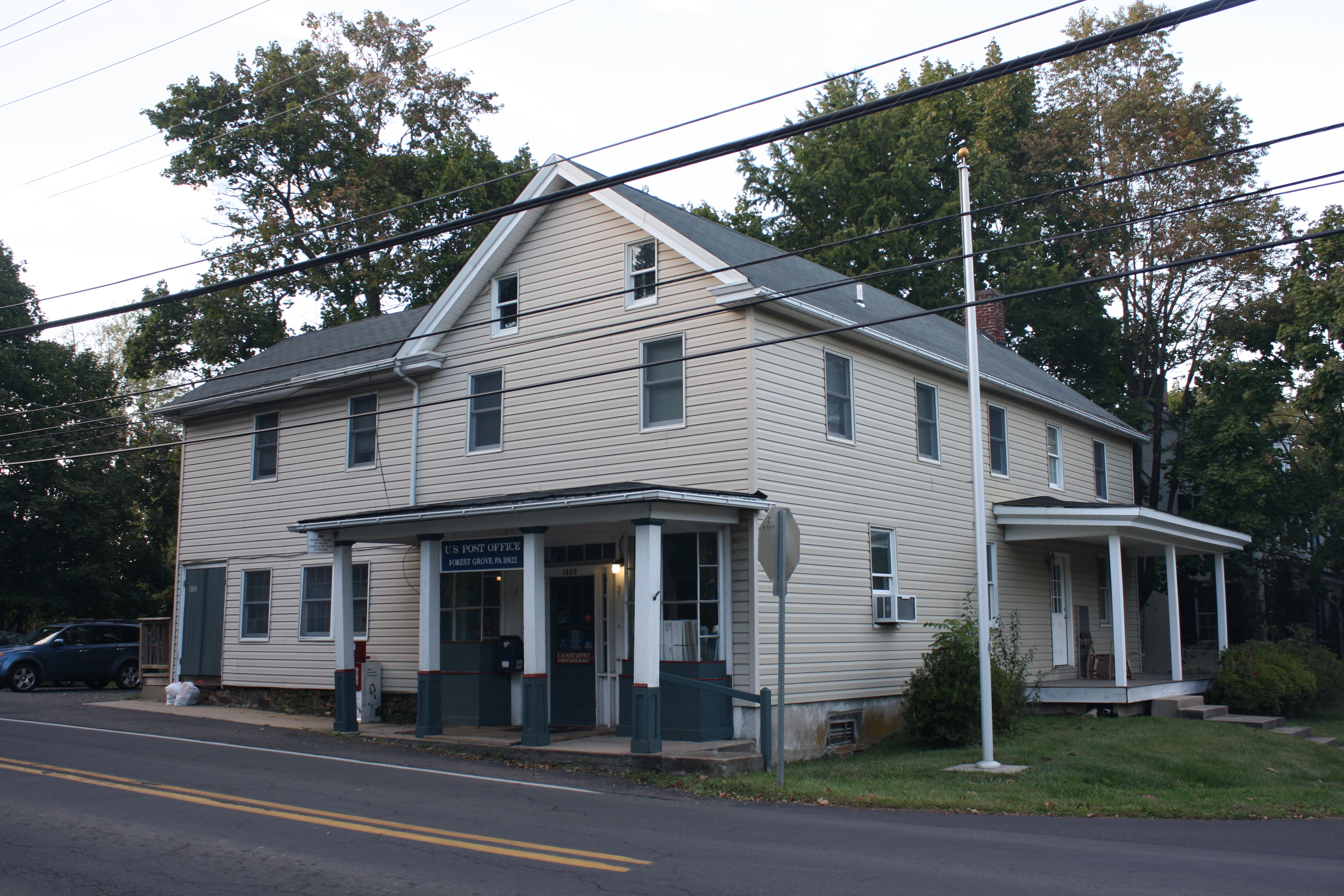 Forest Grove Historic District Post Office, corner of Forest Grove Road and Lower Mountain Road. Object location40° 17′ 34″ N, 75° 03′ 39″ W